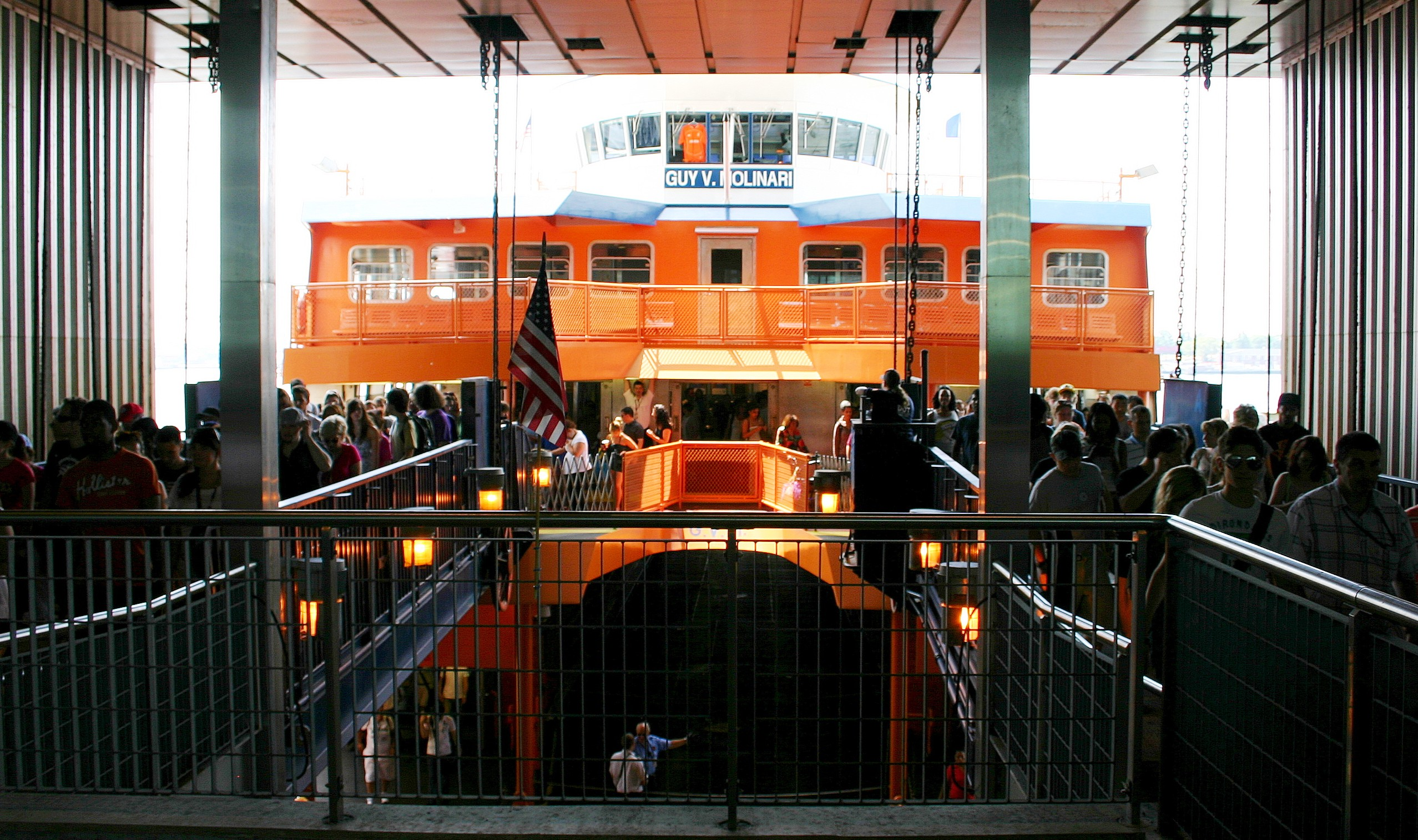 Guy V. Molinari, Staten Island Ferry (Arrival in Manhattan, New York)